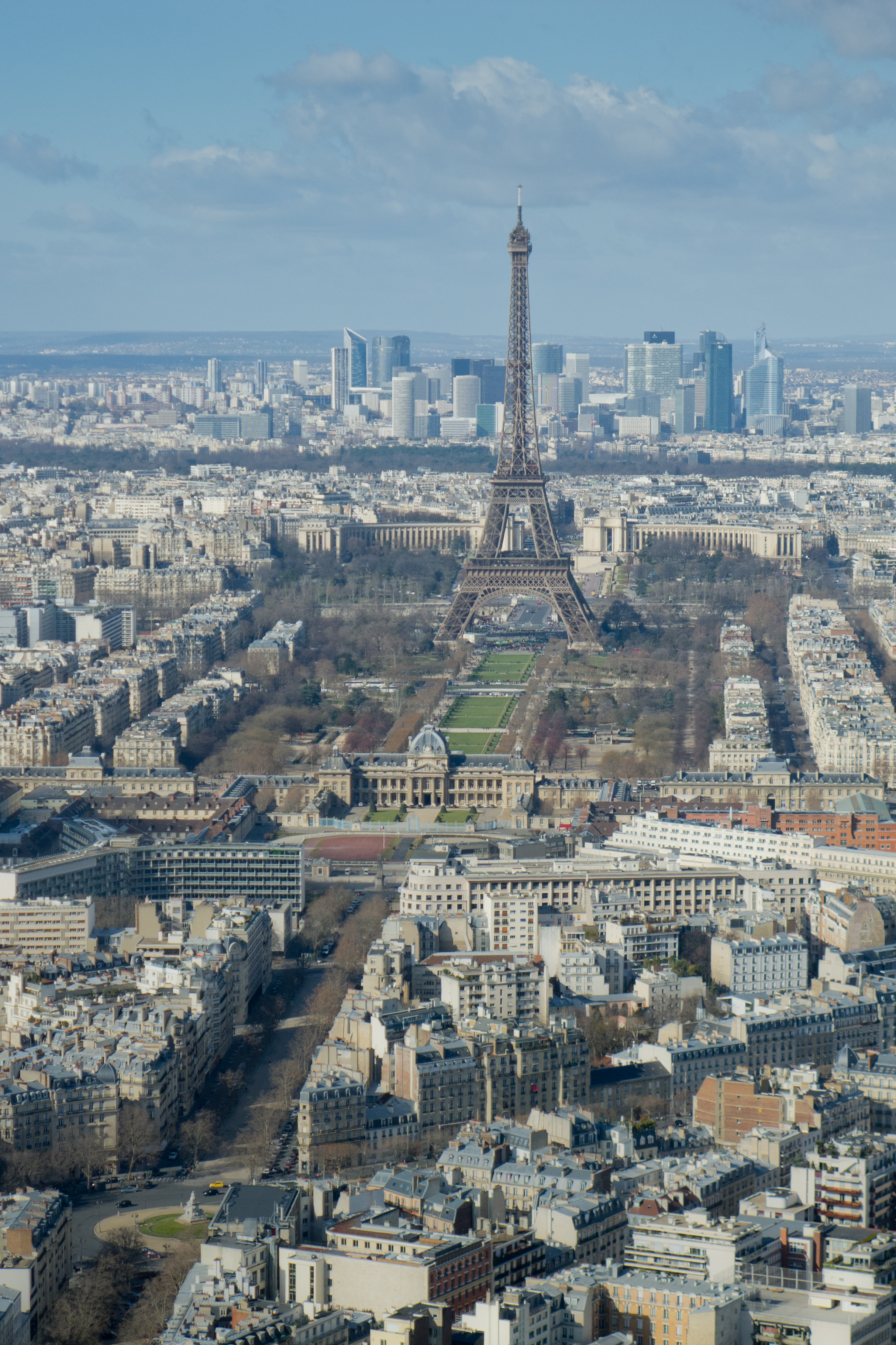 Tour Eiffel, École militaire, Champ-de-Mars, Palais de Chaillot, La Défense (Paris, France) from the Tour Montparnasse.